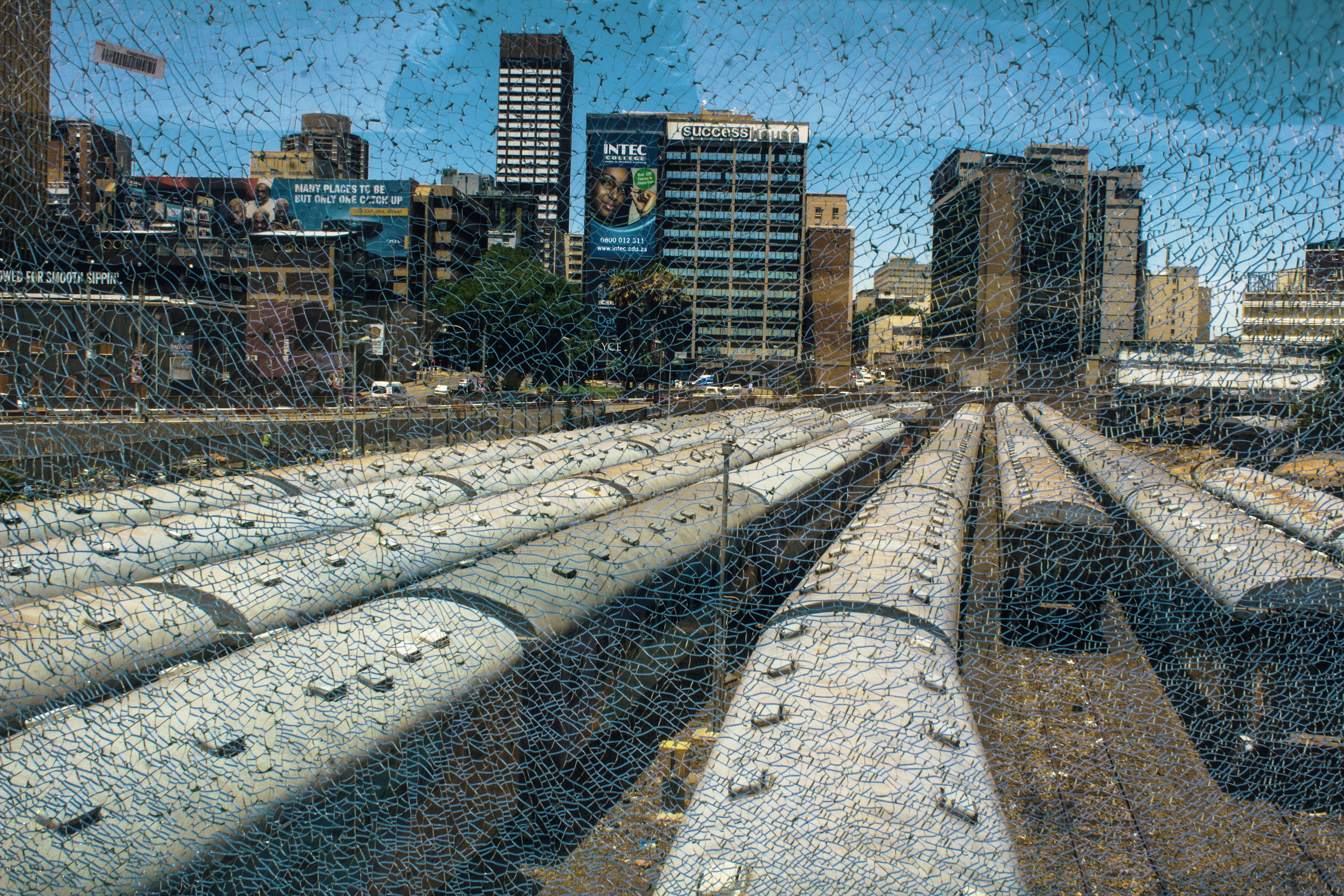 The cracked filter looking effect is actually a crack glass on the side of Mandela Bridge I shot through. This is an image with the theme "Africa on the Move or Transport" from: South Africa